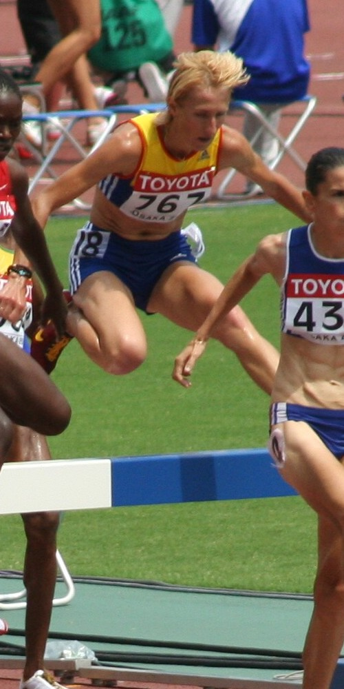 World Athletics Championships 2007 in Osaka - Women's 3000 meter steeplechase 3rd heat. Cristina Casandra (767)